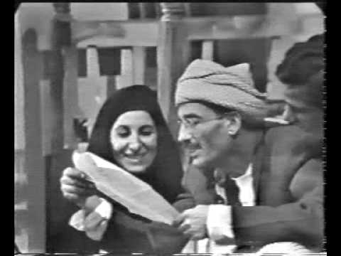 Screenshot of the first episode of Tahit Moos Al-Hallaq in 1961.